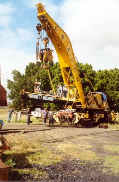 ex NSWGR 70T Craven Brothers breakdown crane unloading a end platform from a ex BHP Treadwell hot metal car at the Richmond Vale Railway Museum